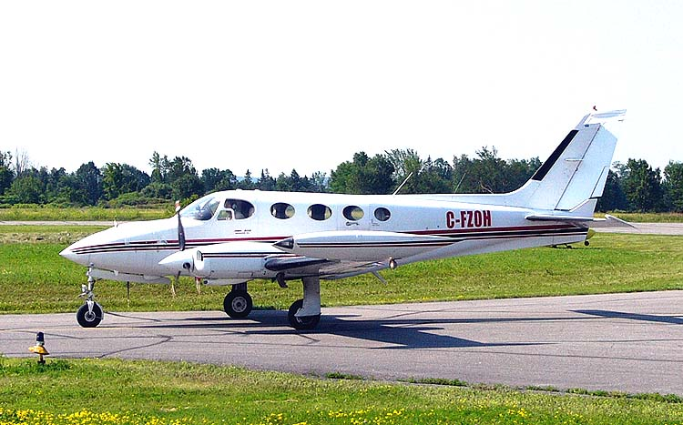 I took this photo of a 1973 model Cessna 340 (C-FZOH) at Arnprior on 9 July 2006.